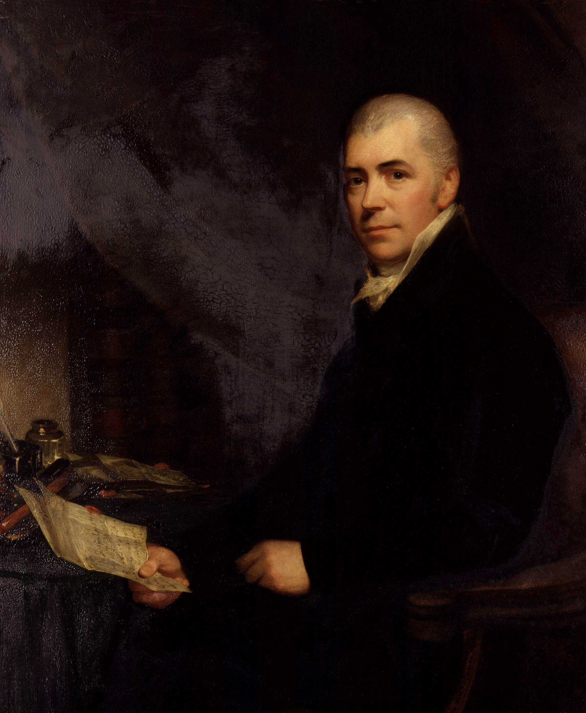 Sir Henry Halford, 1st Bt, by Sir William Beechey (died 1839), given to the National Portrait Gallery, London in 1896. All images in this batch have been confirmed as author died before 1939 according to the official death date listed by the NPG.